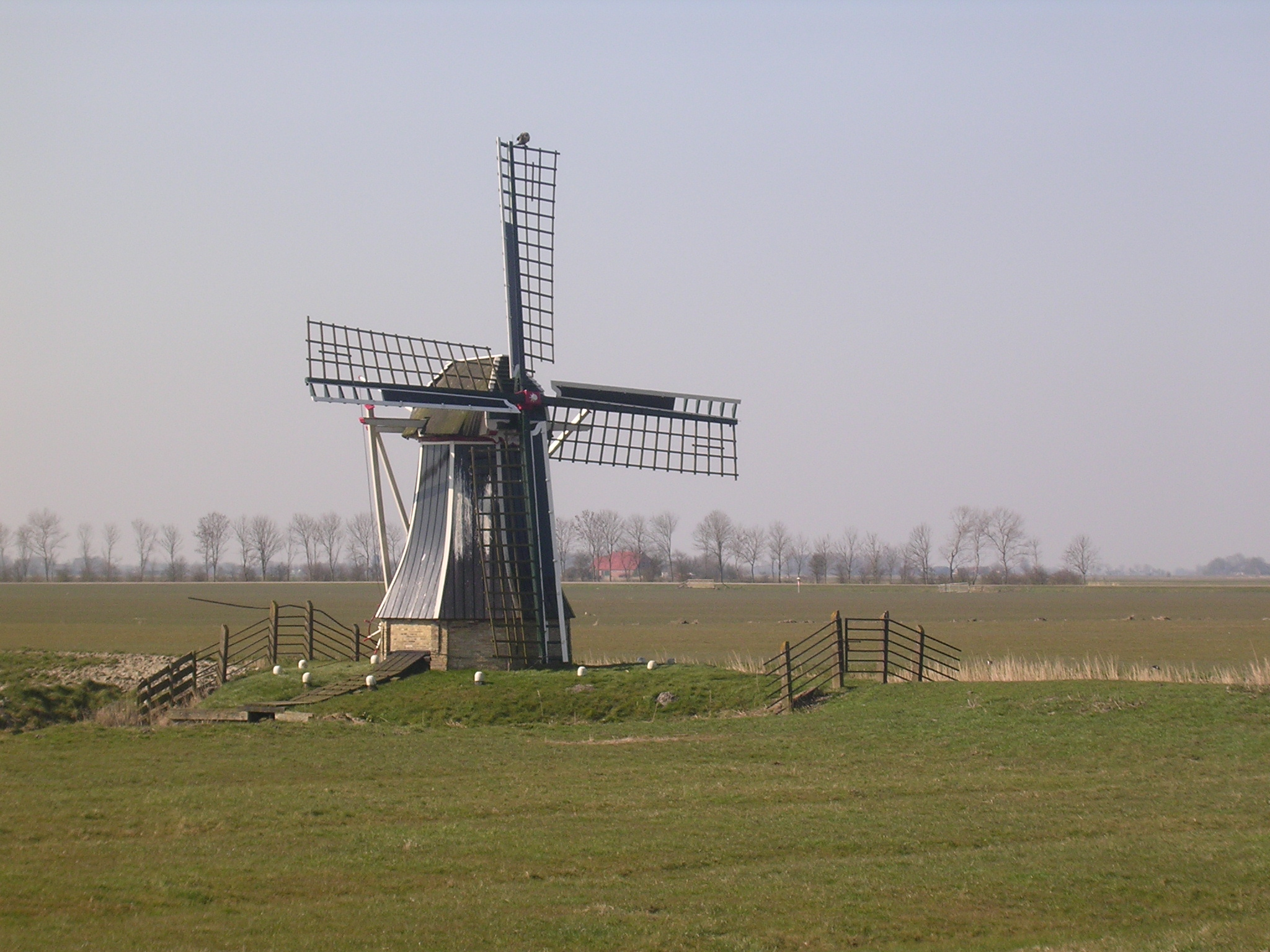 Windmill de gans, near the hamlet esumazijl